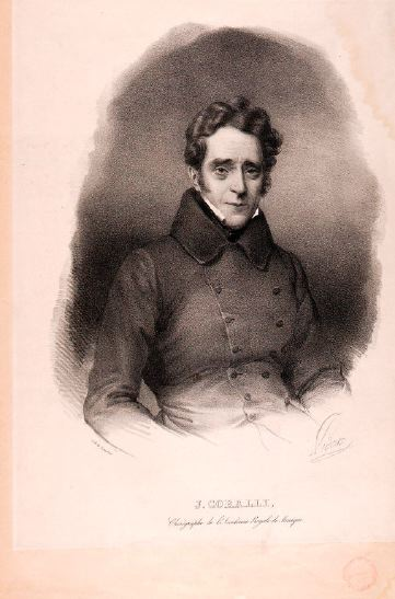 Portrait of the French dancer and choreographer Jean Coralli (1779–1854)